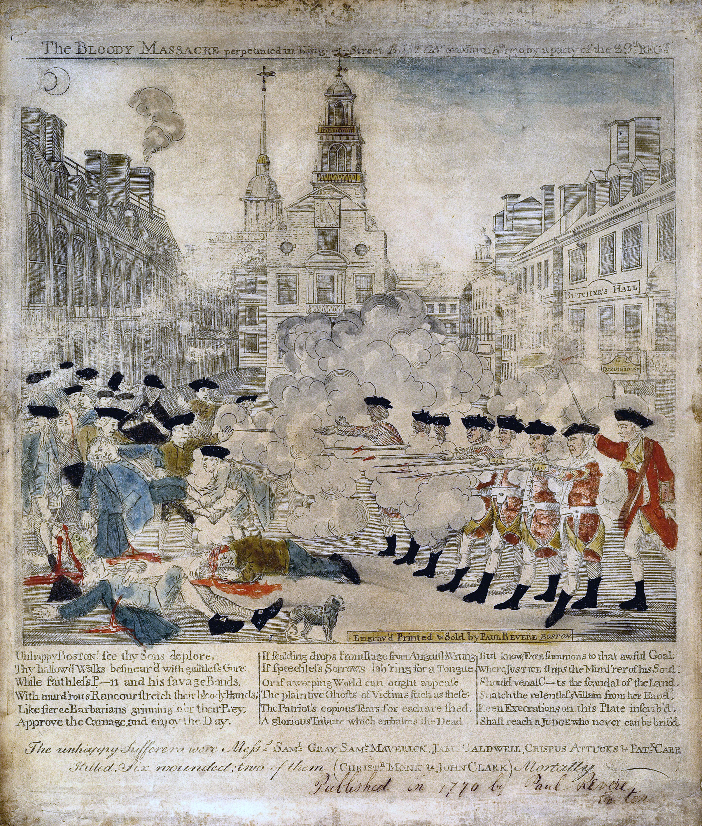 The bloody massacre perpetrated in King Street Boston on March 5th 1770 by a party of the 29th Regt. According to the Library of Congress (1): A sensationalized portrayal of the skirmish, later to become known as the "Boston Massacre," between British soldiers and citizens of Boston on March 5, 1770. On the right a group of seven uniformed soldiers, on the signal of an officer, fire into a crowd of civilians at left. Three of the latter lie bleeding on the ground. Two other casualties have been lifted by the crowd. In the foreground is a dog; in the background are a row of houses, the First Church, and the Town House. Behind the British troops is another row of buildings including the Royal Custom House, which bears the sign (perhaps a sardonic comment) "Butcher's Hall." Beneath the print are four sections of verse, which read: Unhappy BOSTON! see thy Sons deplore, Thy hallow'd Walks besmear'd with guiltless Gore: While faithless P--n and his savage Bands, With murd'rous Rancour stretch their bloody Hands; Like fierce Barbarians grinning o'er their Prey, Approve the Carnage, and enjoy the Day. If scalding drops from Rage from Anguish Wrung If speechless Sorrows lab'ring for a Tongue, Or if a weeping World can ought appease The plaintive Ghosts of Victims such as these; The Patriot's copious Tears for each are shed, A glorious Tribute which embalms the Dead But know, FATE summons to that awful Goal, Where JUSTICE strips the Murd'rer of his Soul: Should venal C--ts the scandal of the Land, Snatch the relentless Villain from her Hand, Keen Execrations on this Plate inscrib'd, Shall reach a JUDGE who never can be brib'd. The unhappy Sufferers were Mess.s SAM.L GRAY, SAM.L MAVERICK, JAM.S CALDWELL, CRISPUS ATTUCKS & PAT.K CARR Killed. Six wounded; two of them (CHRIST.R MONK & JOHN CLARK) Mortally Published in 1770 by Paul Revere Boston 1 print : engraving with watercolor, on laid paper ; 25.8 x 33.4 cm. (plate)